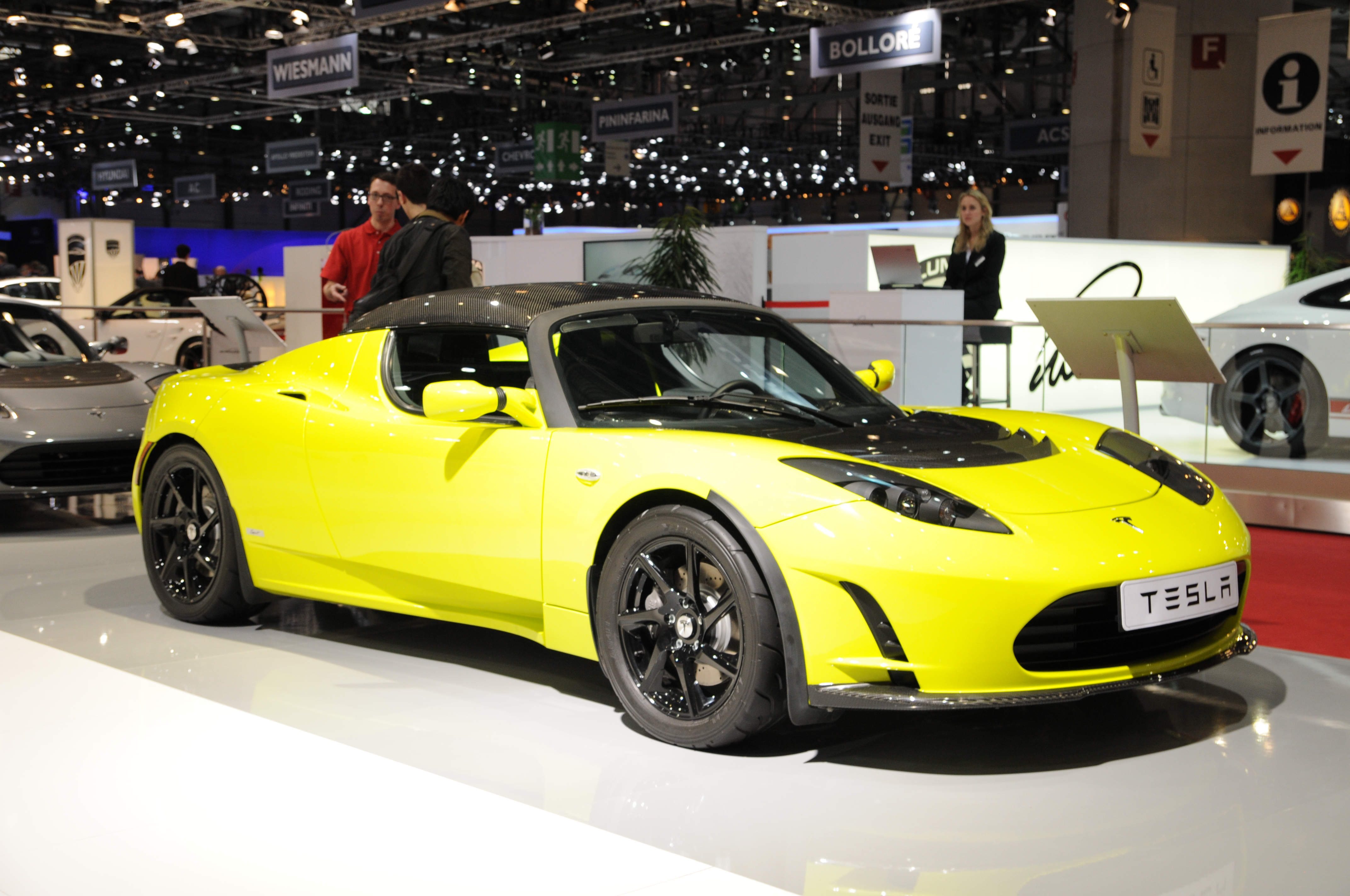 Geneva Motor Show 2012 (photos taken on the second press day)